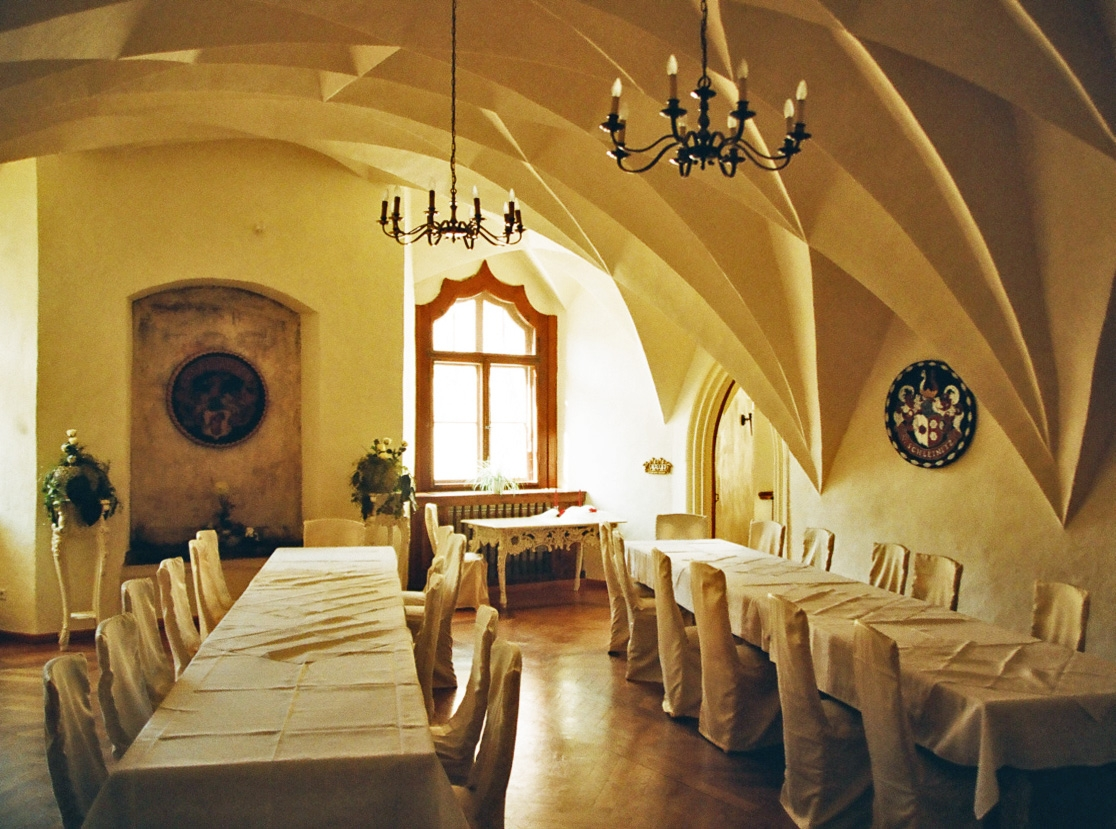 Room in the castle of Wurzen